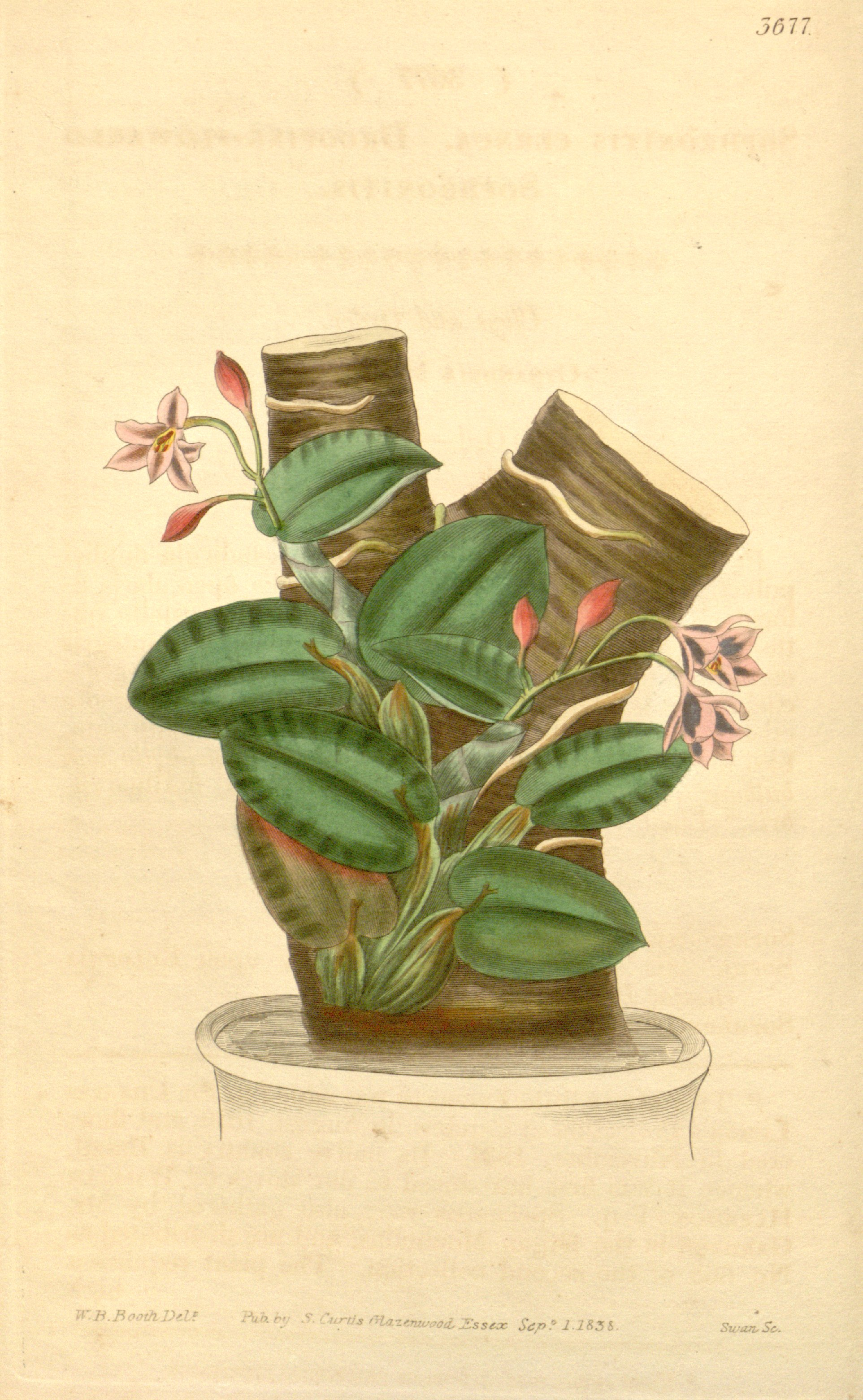 Illustration of Sophronitis cernua